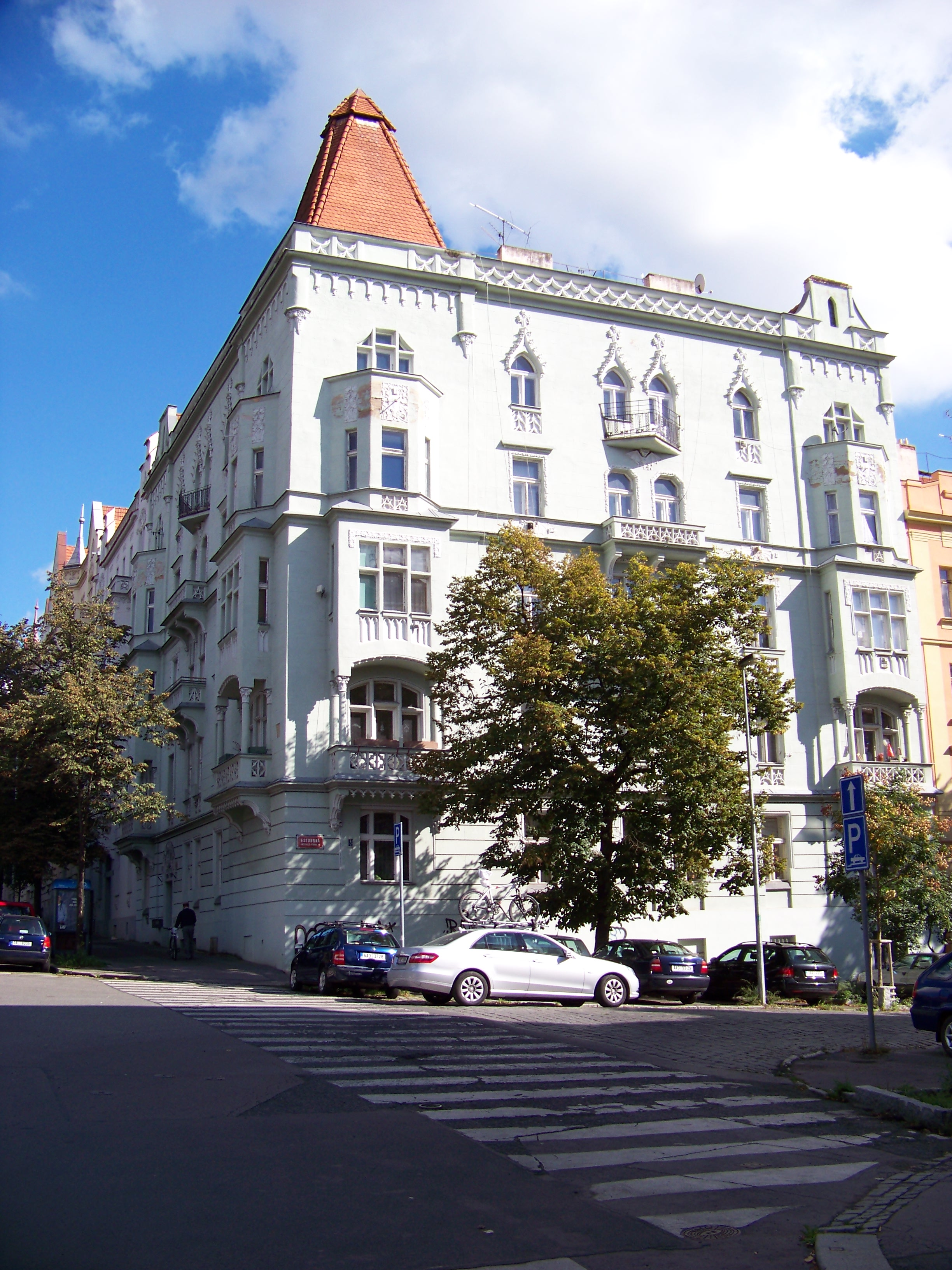 Prague-Vršovice, the Czech Republic. Ruská 562/20, Estonská 562/8.